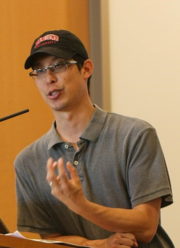 I was super-excited. SUPER. It's been seven plus years, you know.